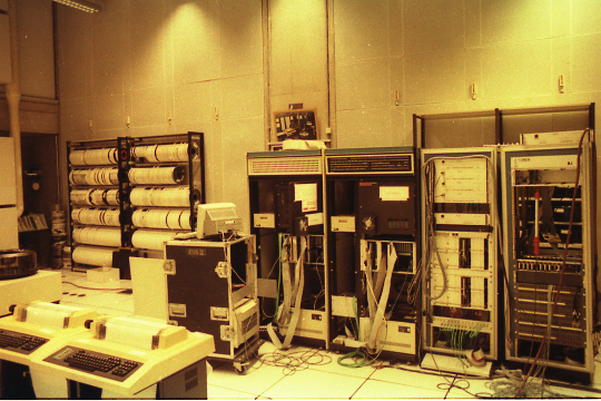 The main machine room of IRCAM in Paris. The cards spewing cables in the racks in the center of the image are their custom-build audio processors.